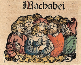 This is a part of a scan of an historical document: Title: Schedelsche Weltchronik or Nuremberg Chronicle